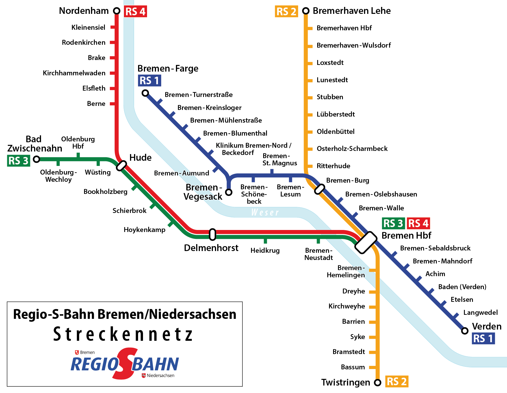 Map of the Regio-S-Bahn Bremen-Niedersachsen